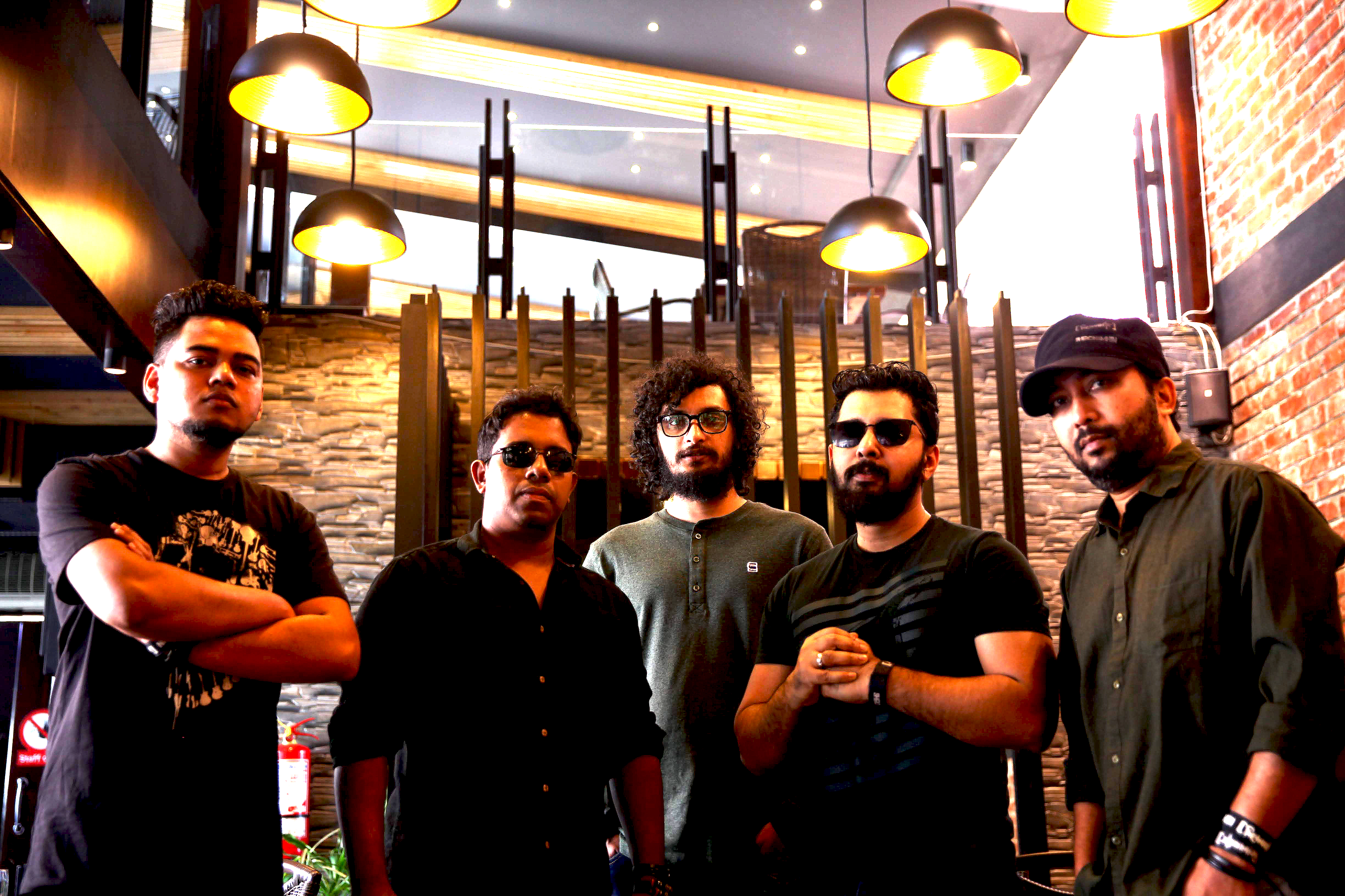 Shironamhin in March 2019. Clockwise from left: Symon Chowdhury, Kazi Ahmad Shafin, Sheikh Ishtiaque, Diat Khan and Ziaur Rahman